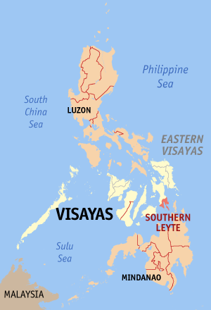 Map of the Philippines showing the location of Southern Leyte